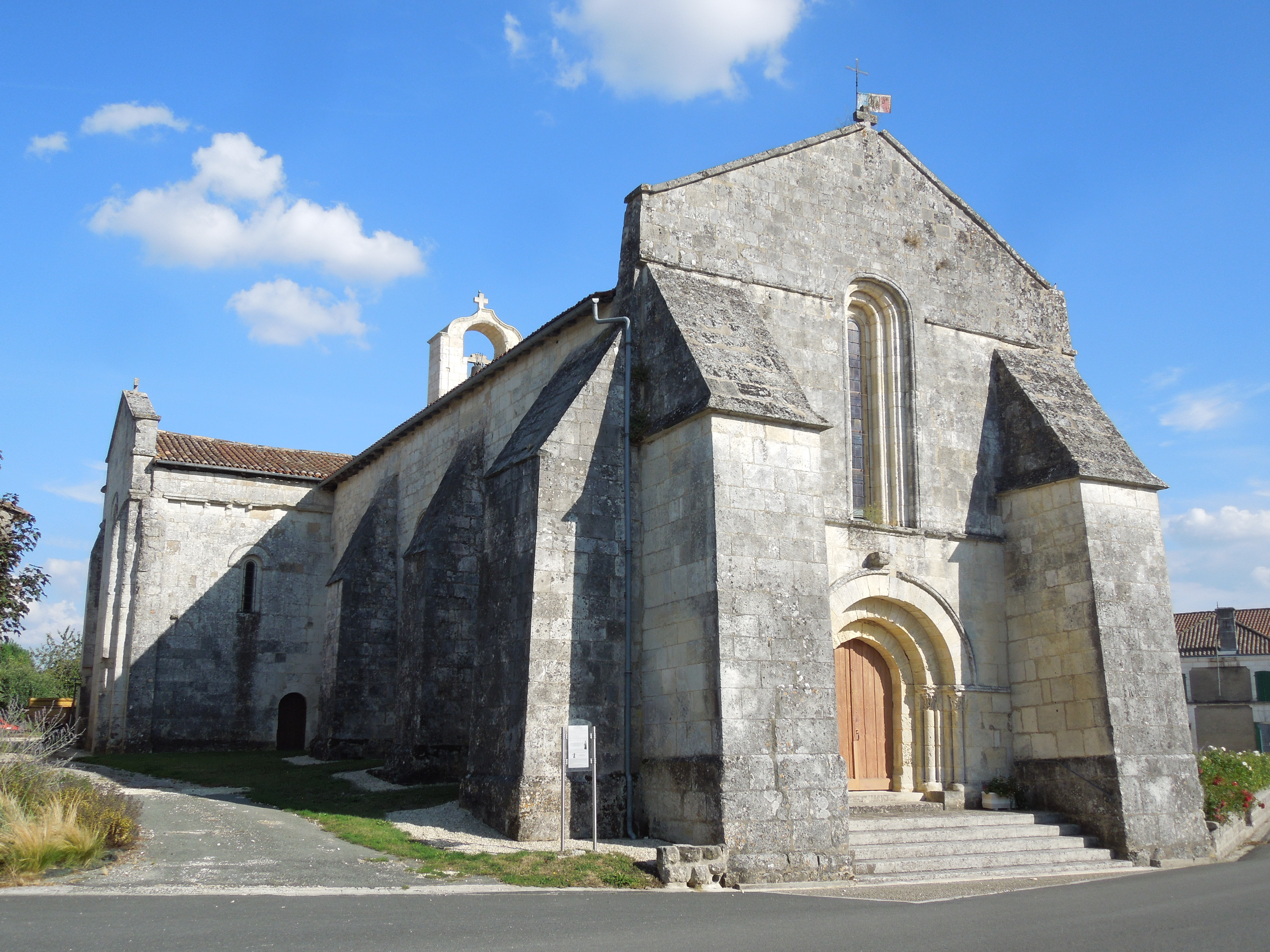 Villexavier, church Saint-Christophe, seen from northwesr